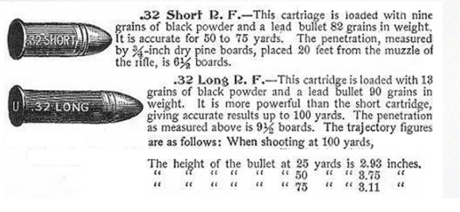 .32 Rimfire cartridges